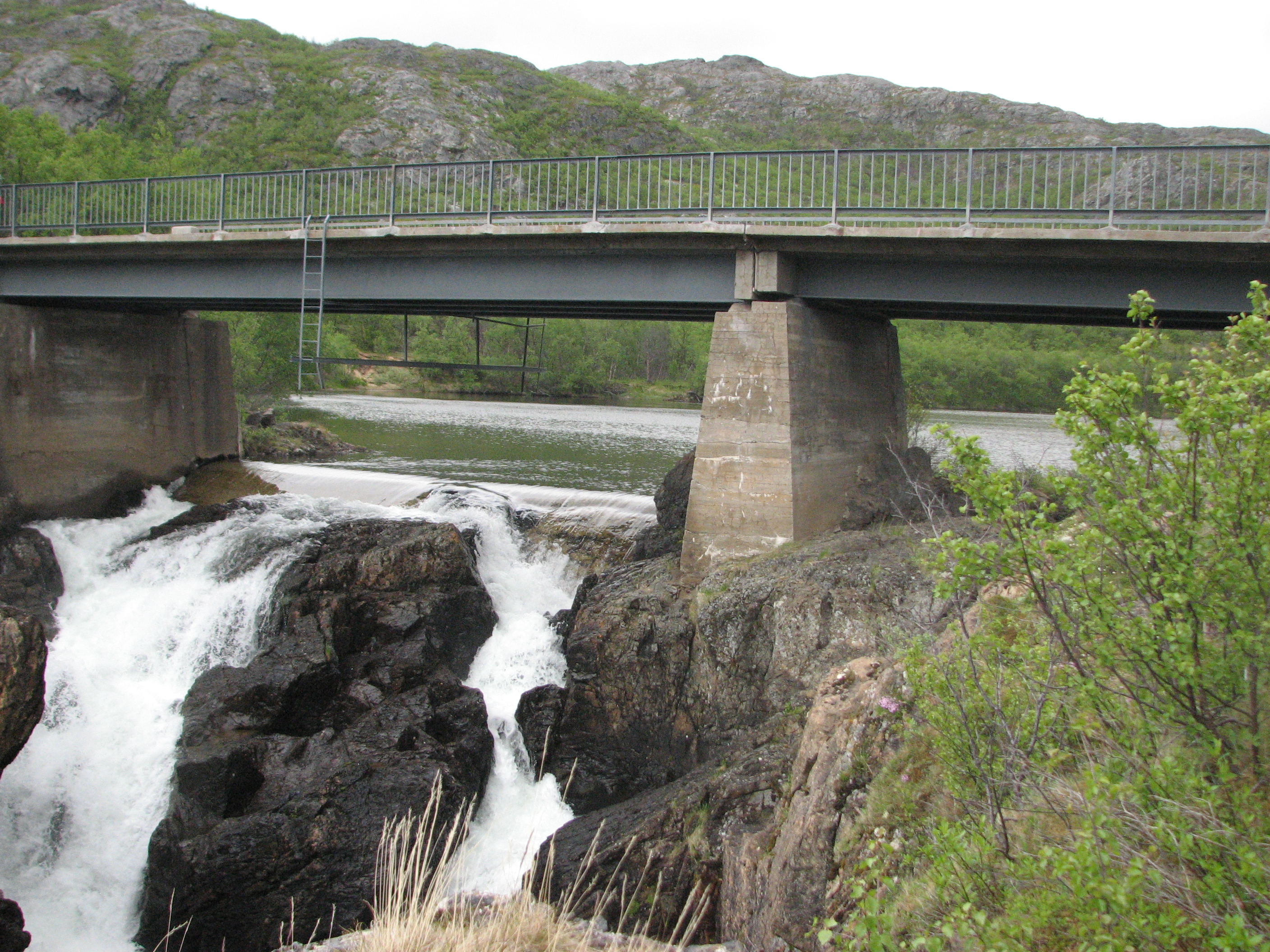 Adamsfjord nature reserve, Lebesby municipality, Norway